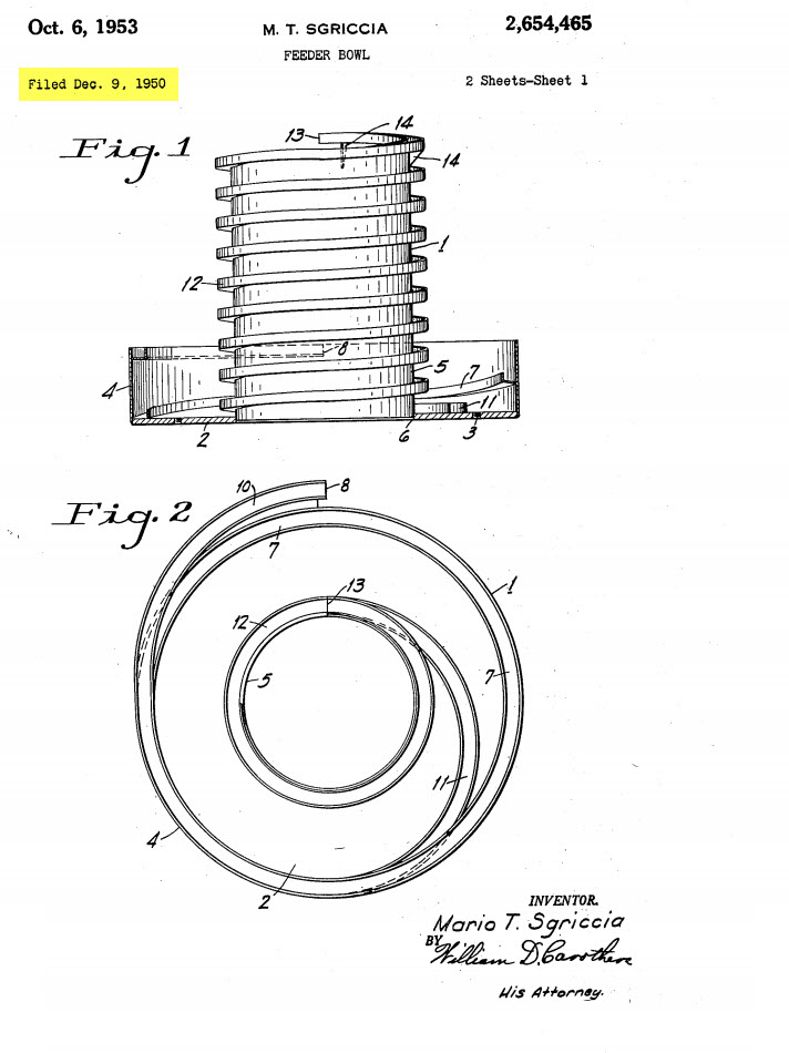 US patent 2,654,465 drawing